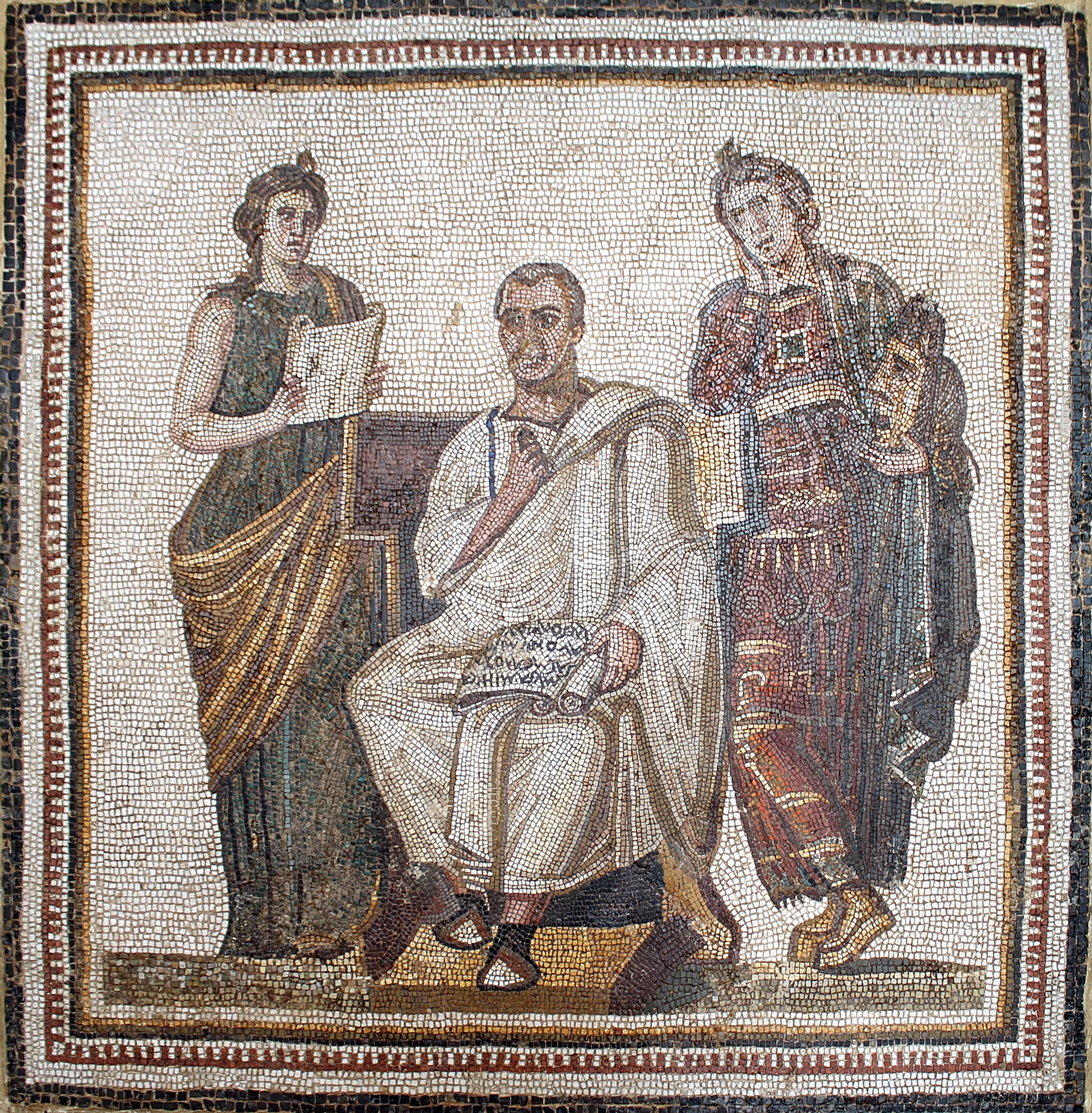 The great Latin poet, Virgil, holding a volume on which is written the Aenid. On either side stand the two muses: "Clio" (history) and "Melpomene" (tragedy). The mosaic, which dates from the 3rd Century A.D., was discovered in the Hadrumetum in Sousse, Tunisia and is now on display in the Bardo Museum in Tunis, Tunisia.